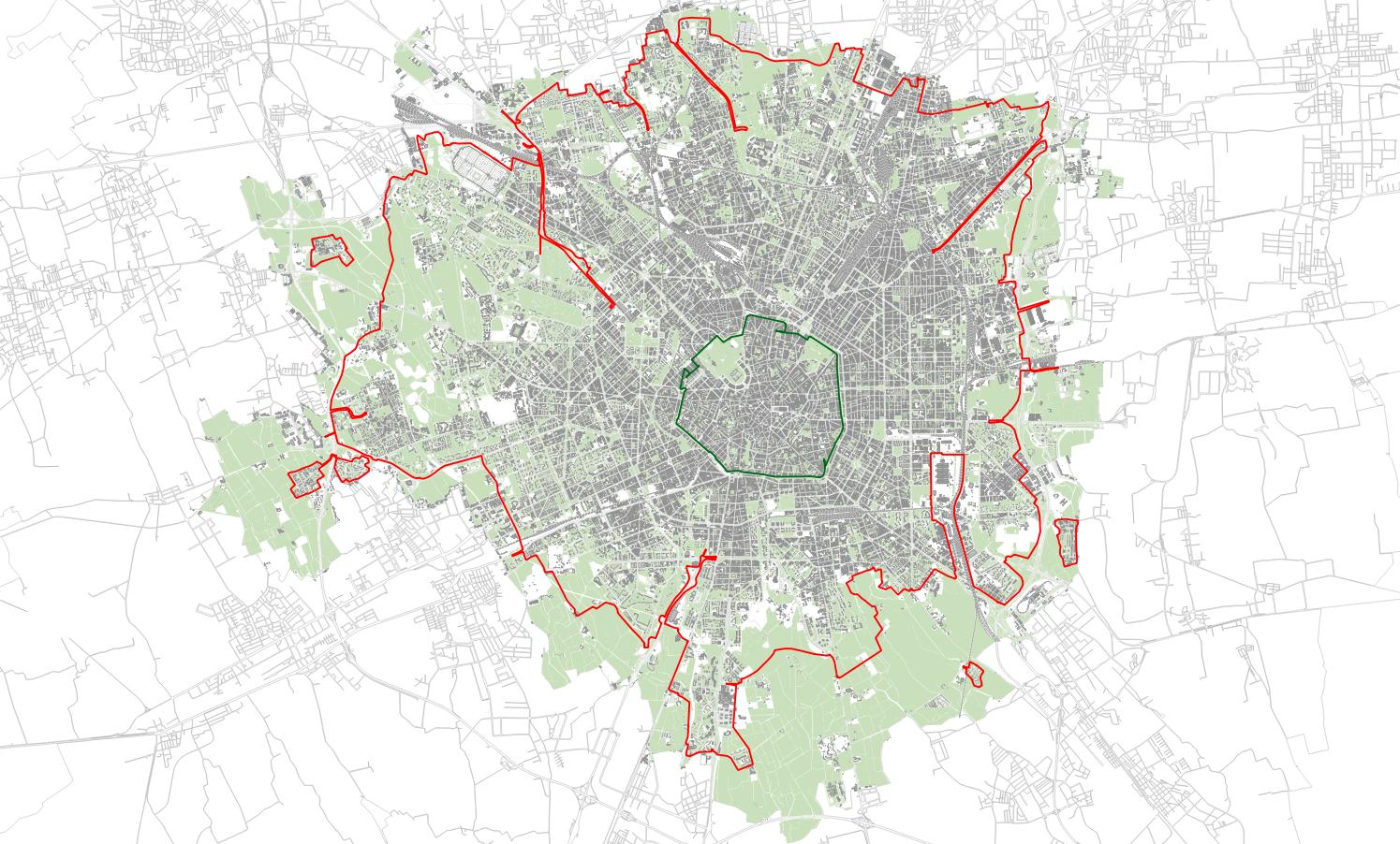 Map of Milan's restricted traffic areas, including Area C (in green) and Area B (in red)